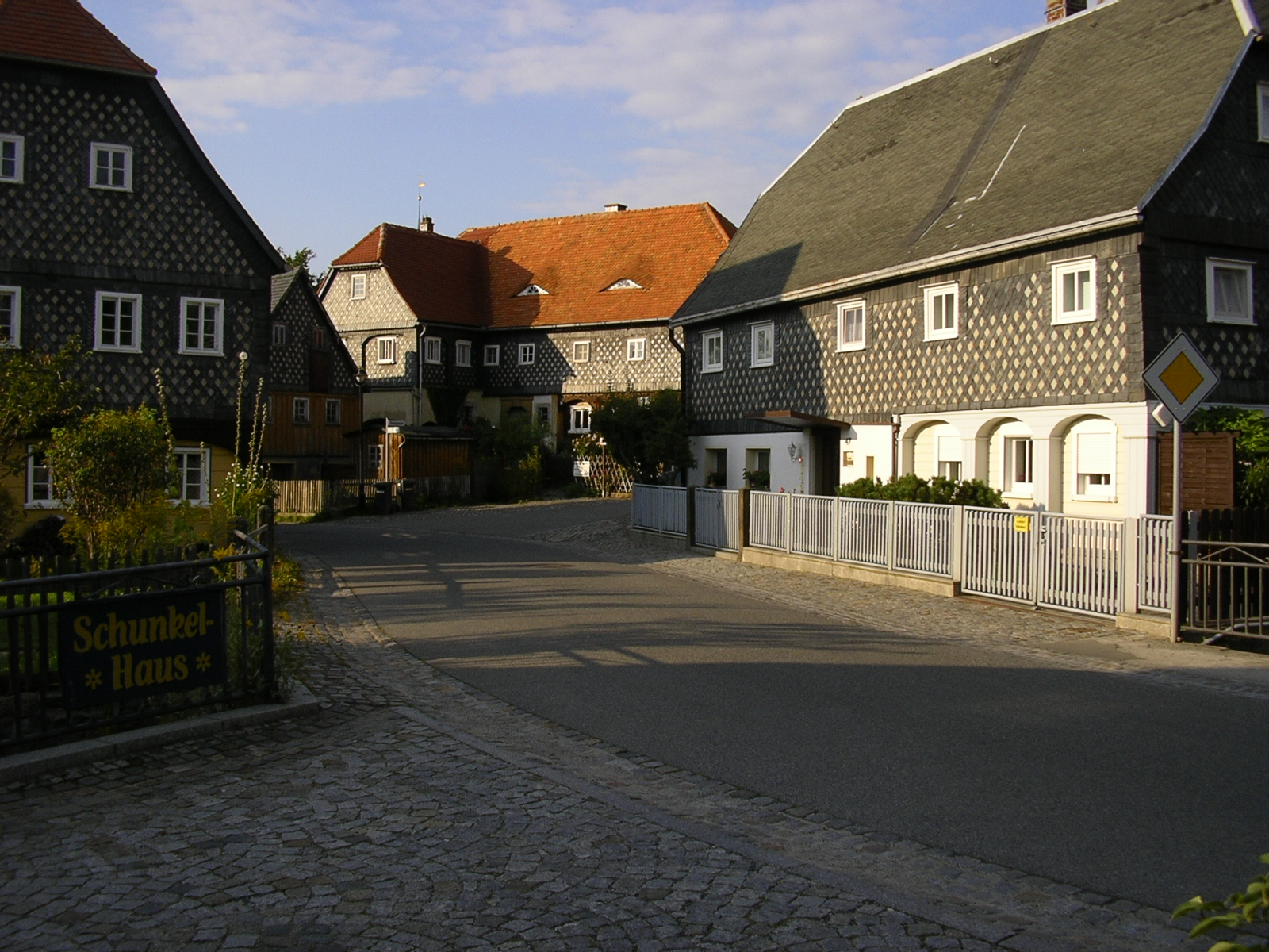 Street at Obercunnersdorf, Saxonia, Germany